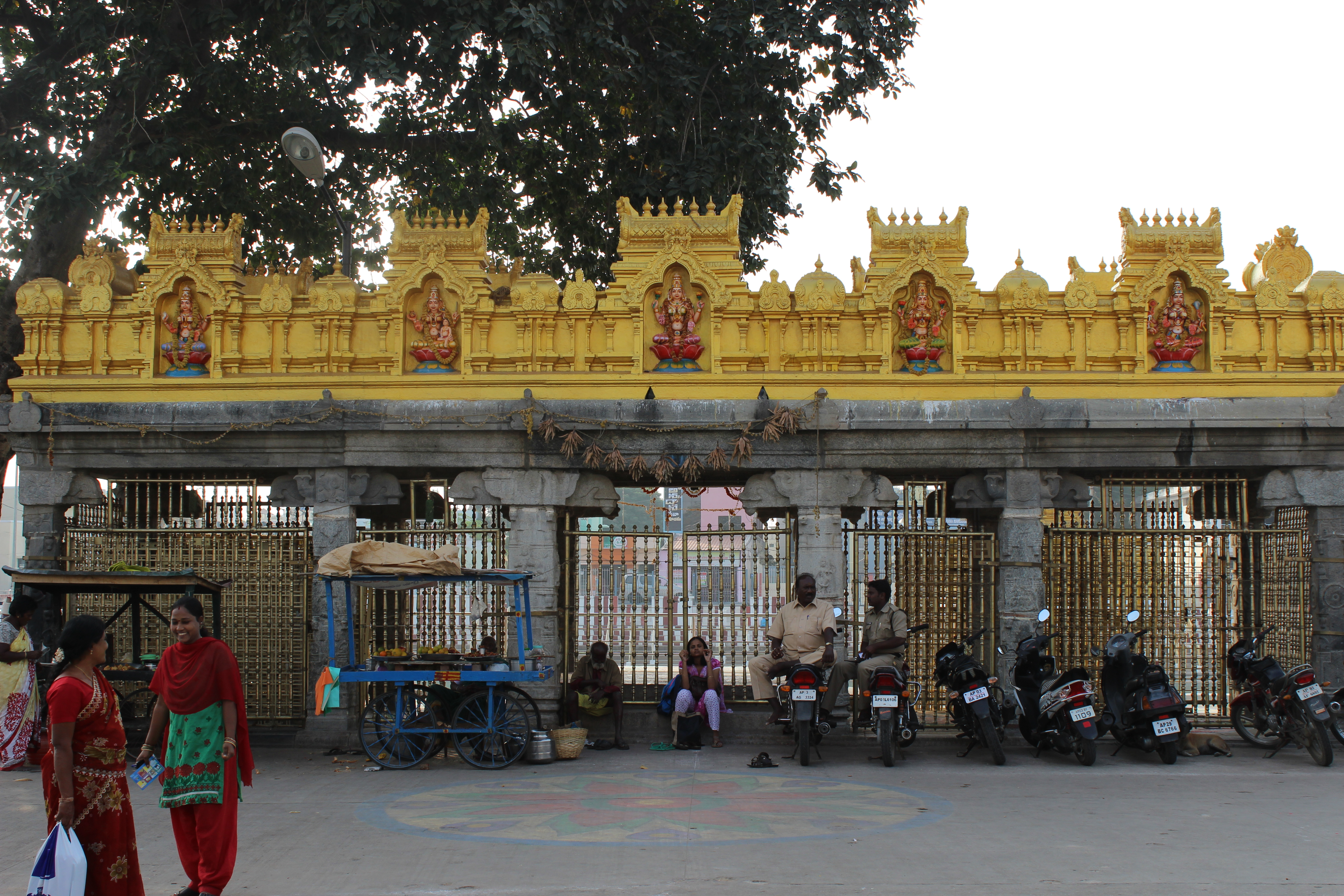 Thiruchanur